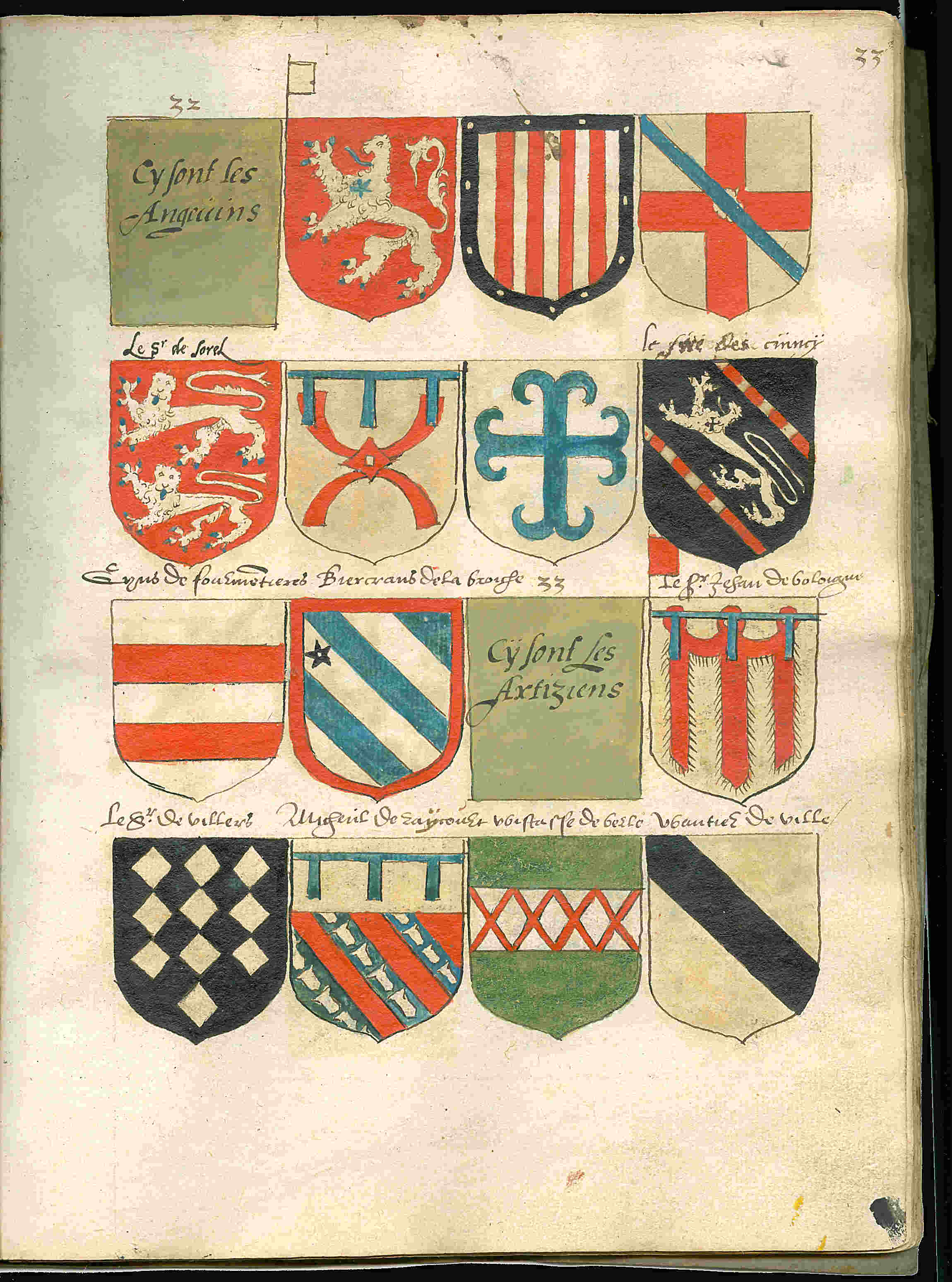 Page 33 from a copy of the Beyeren armorial / Wapenboek Beyeren from ca. 1600. The original Beyeren armorial from 1405 can be viewed at the website of the KB